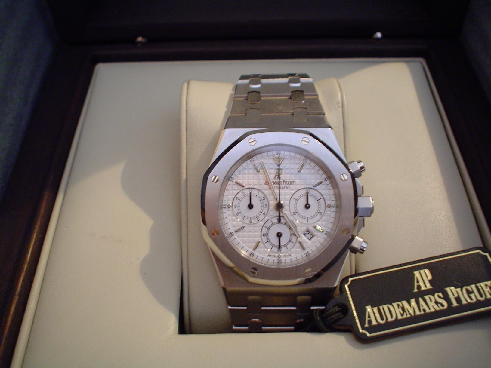 Royal Oak Chronograph,Ref.25860st Cal.2385